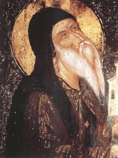 Founder of The Holy Monastery of Varlaam